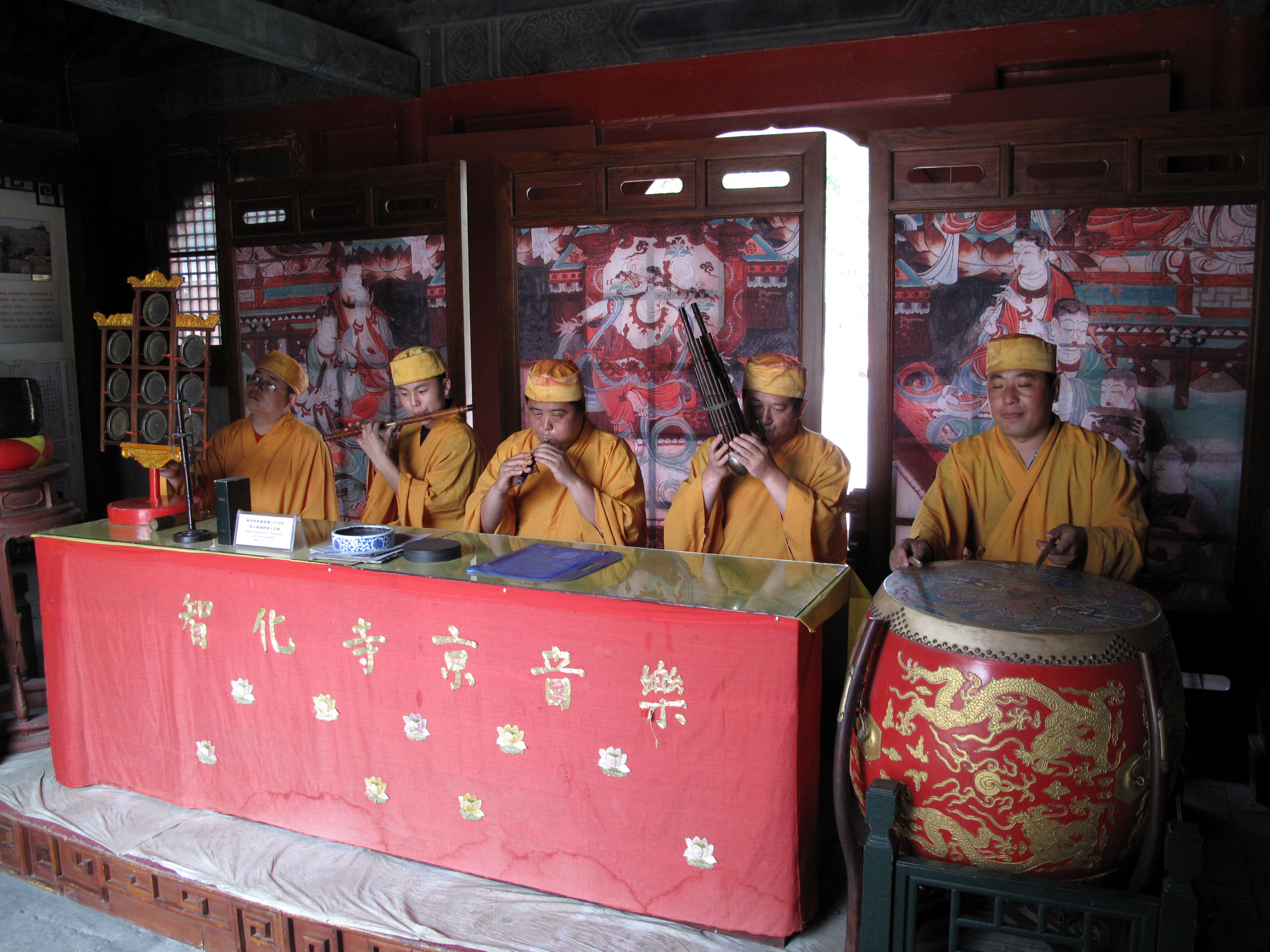 Temple Musicians. Zhihua Si, Beijing A continuous tradition of music in the temple is currently represented by the 27th generation of music masters. The musicians here are playing (right to left) a drum, sheng, reed, flute, and tuned gongs.